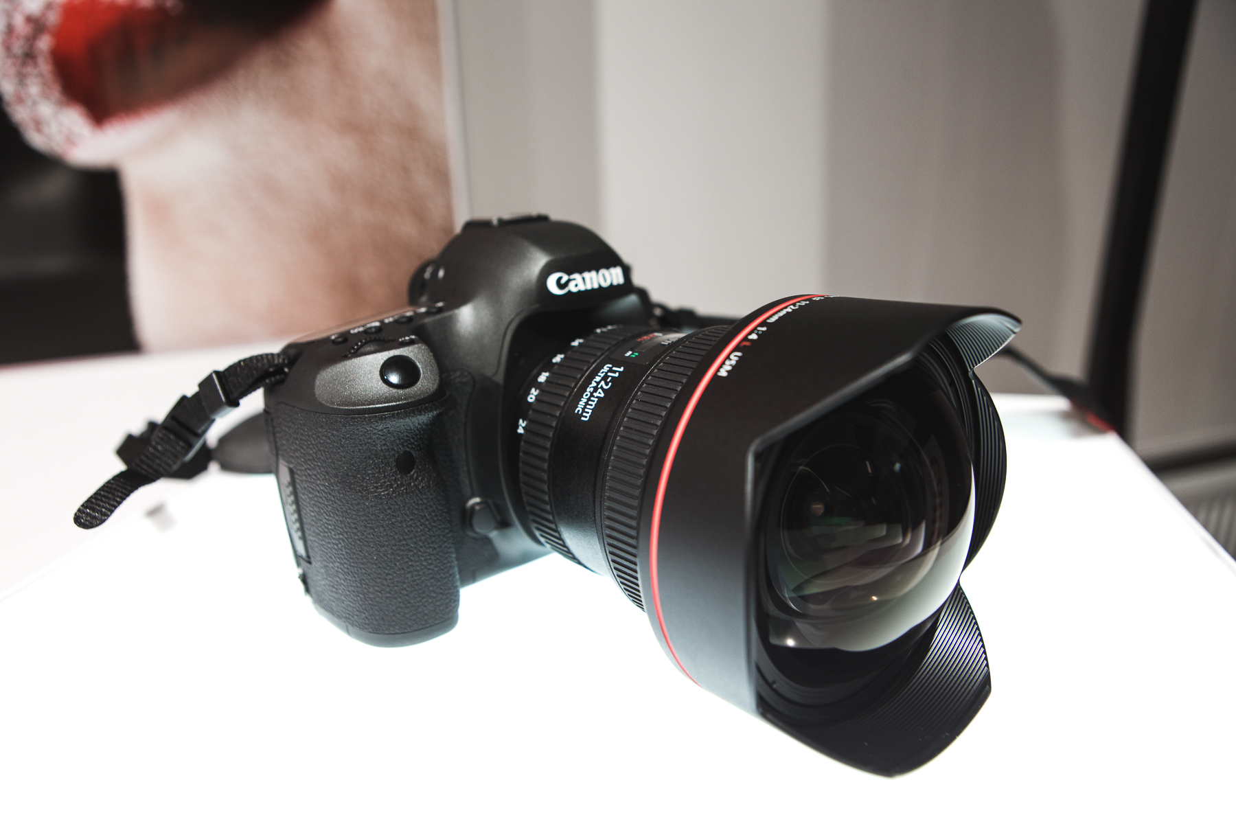 Canon EOS 5DS R with lens